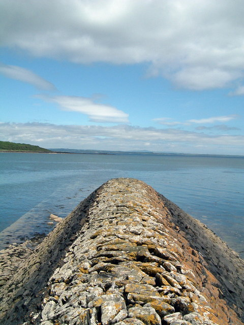 Garlieston Breakwater showing excellent lichen zonation. The topmost grey lichens are Ramalina spp., with yellow lichens Xanthoria spp. below. The black lichen Verrucaria Maura always occurs below these in the lichen zones. The width and height of the lichen zones depends on exposure - these are large bands as the breakwater is extremely exposed - no plants are present on the stone structure